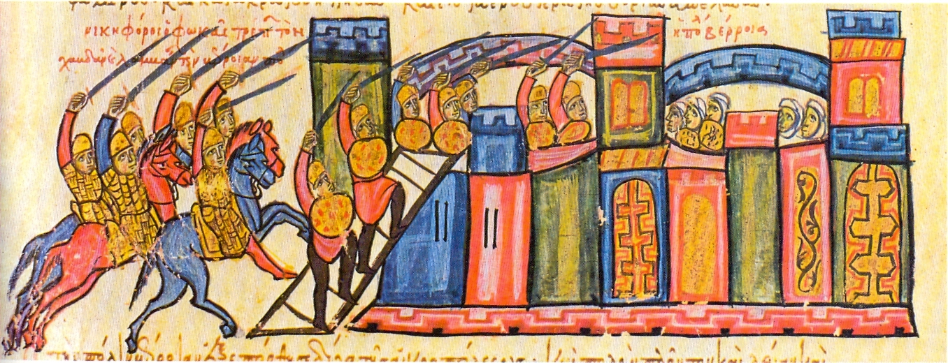 The Byzantine army under Nikephoros Phokas captures Halep (Berrhoea), Syria, in February 963.